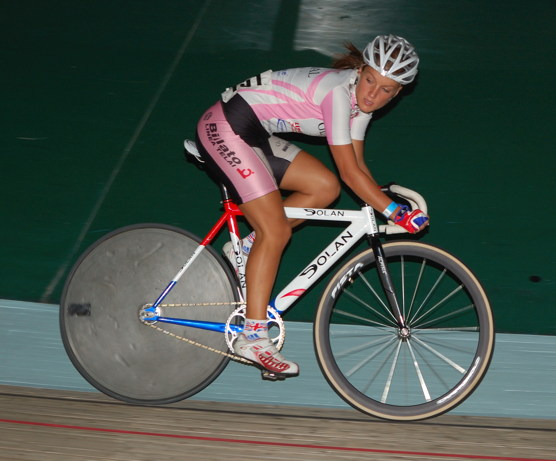 Lizzie Armitstead at Revolution 17, Manchester